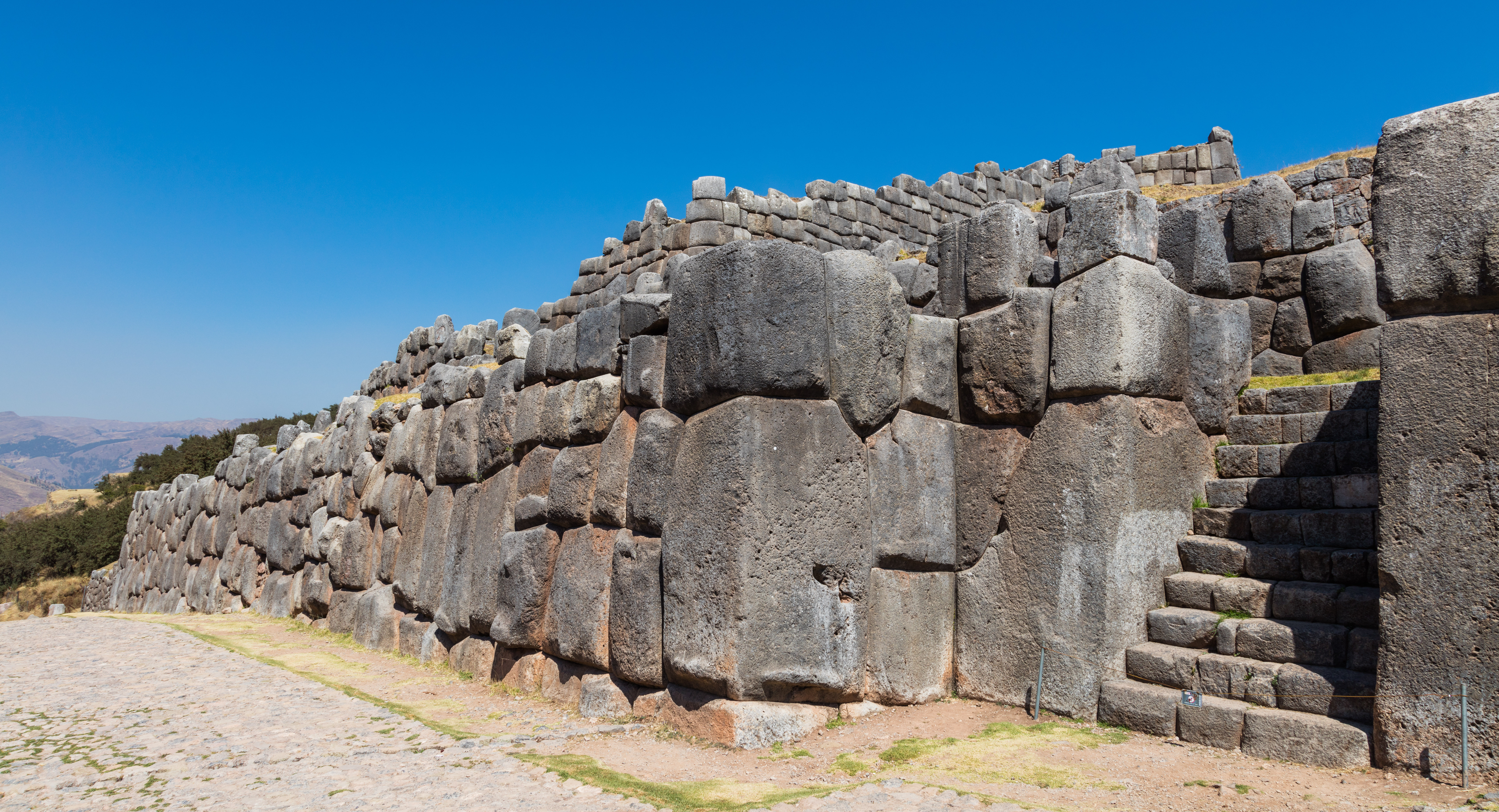 Sacsayhuamán, Cusco, Peru